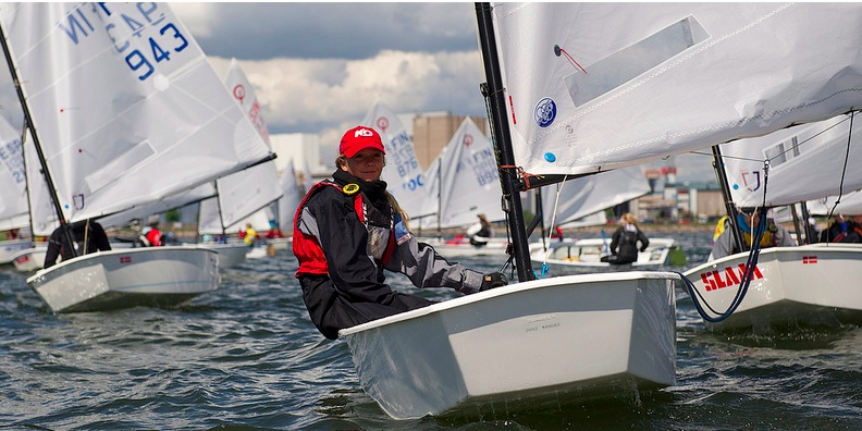 HSS optimister 2012